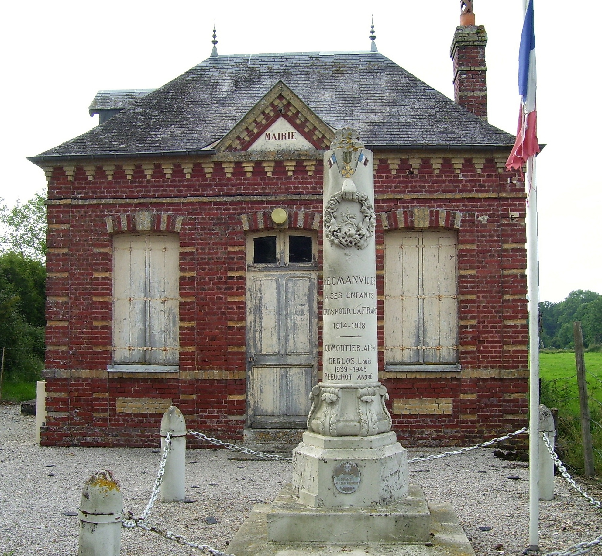 Old town hall and war memorial of Hecmanville in the departement Eure in France.